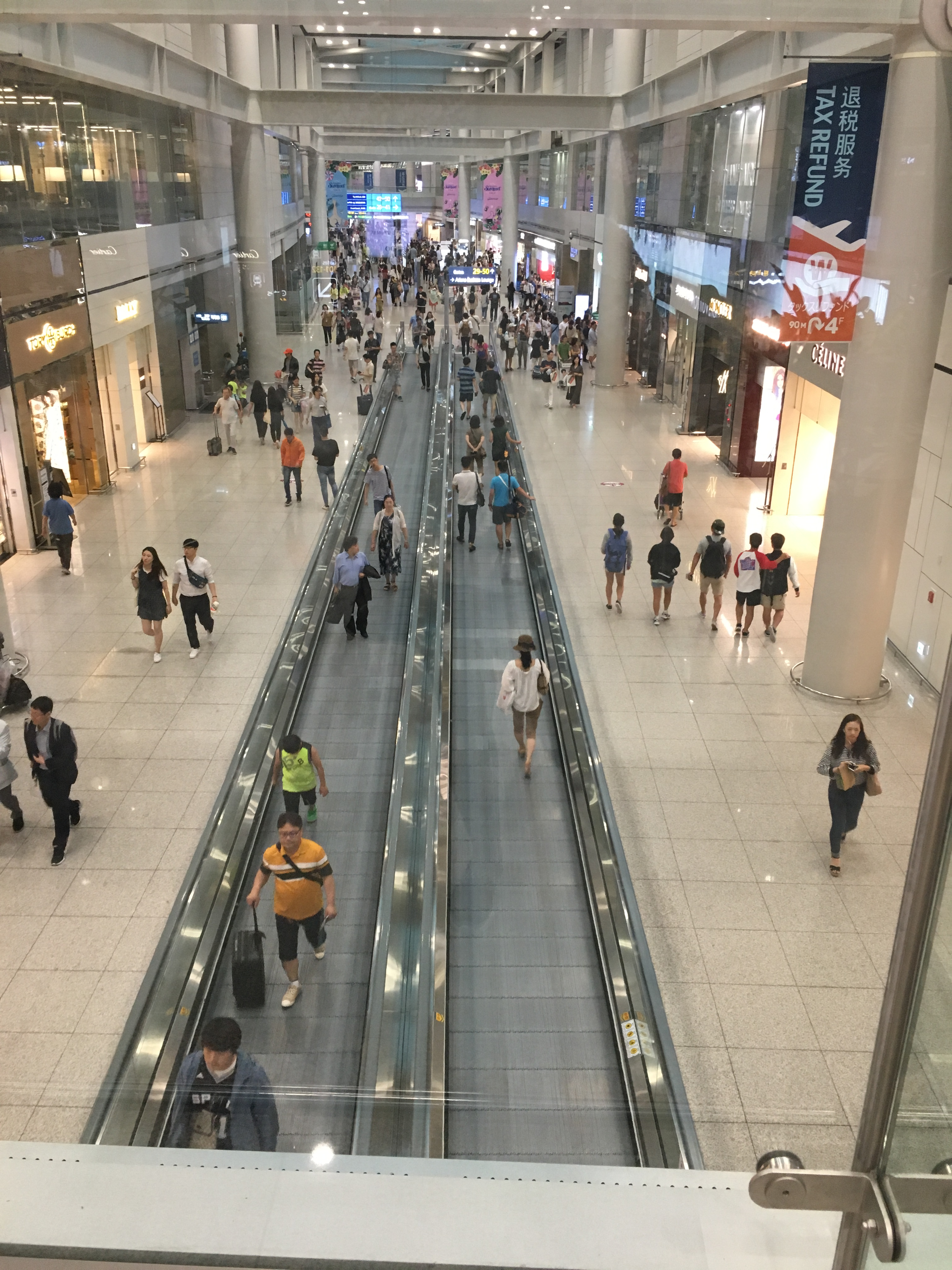 Inside the Incheon Airport